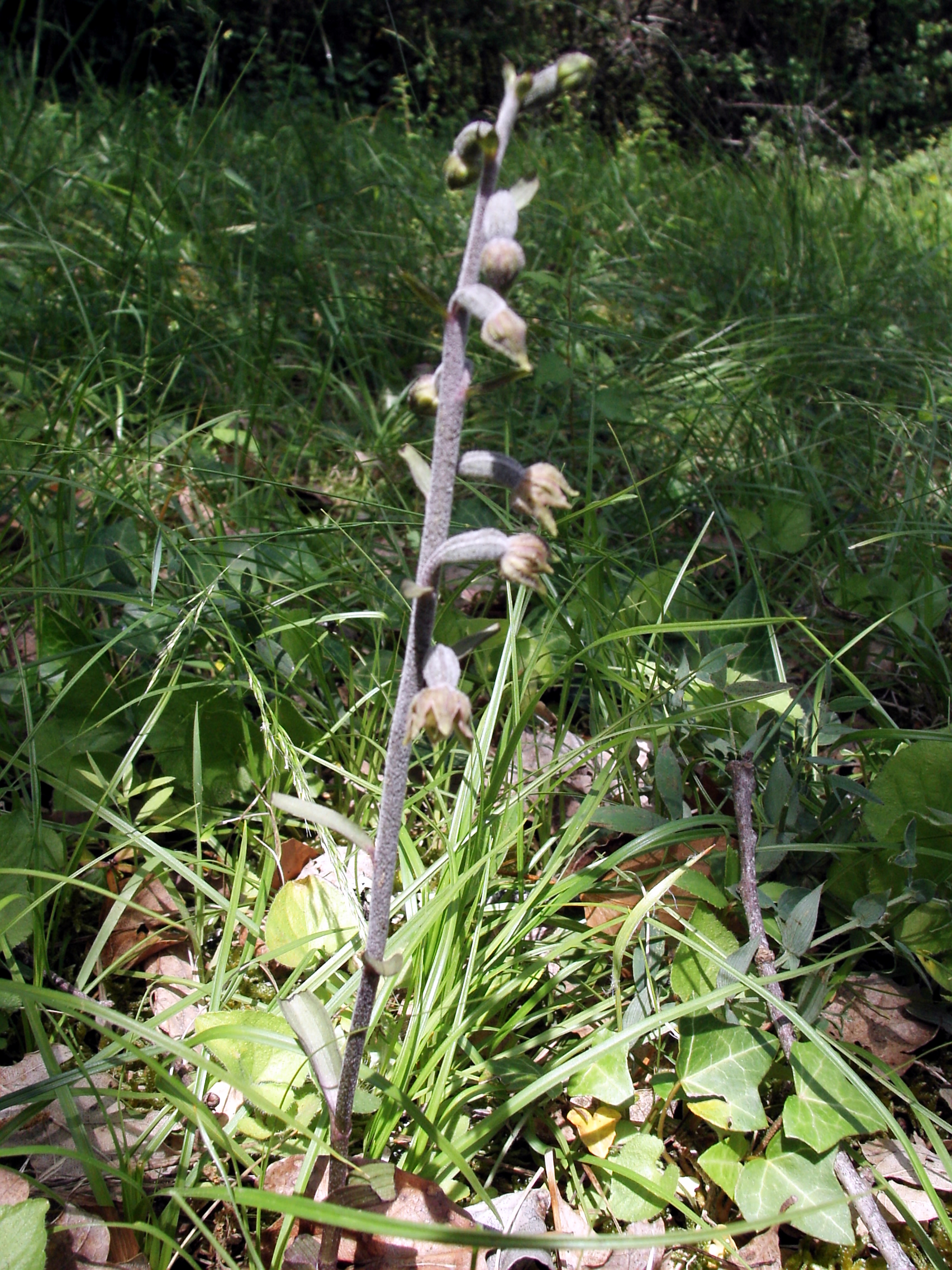 Description Epipactis microphylla, Dordogne (France) Date04/06/2006SourceOwn workAuthorJohan Neegers Epipactis microphylla, Dordogne (France)